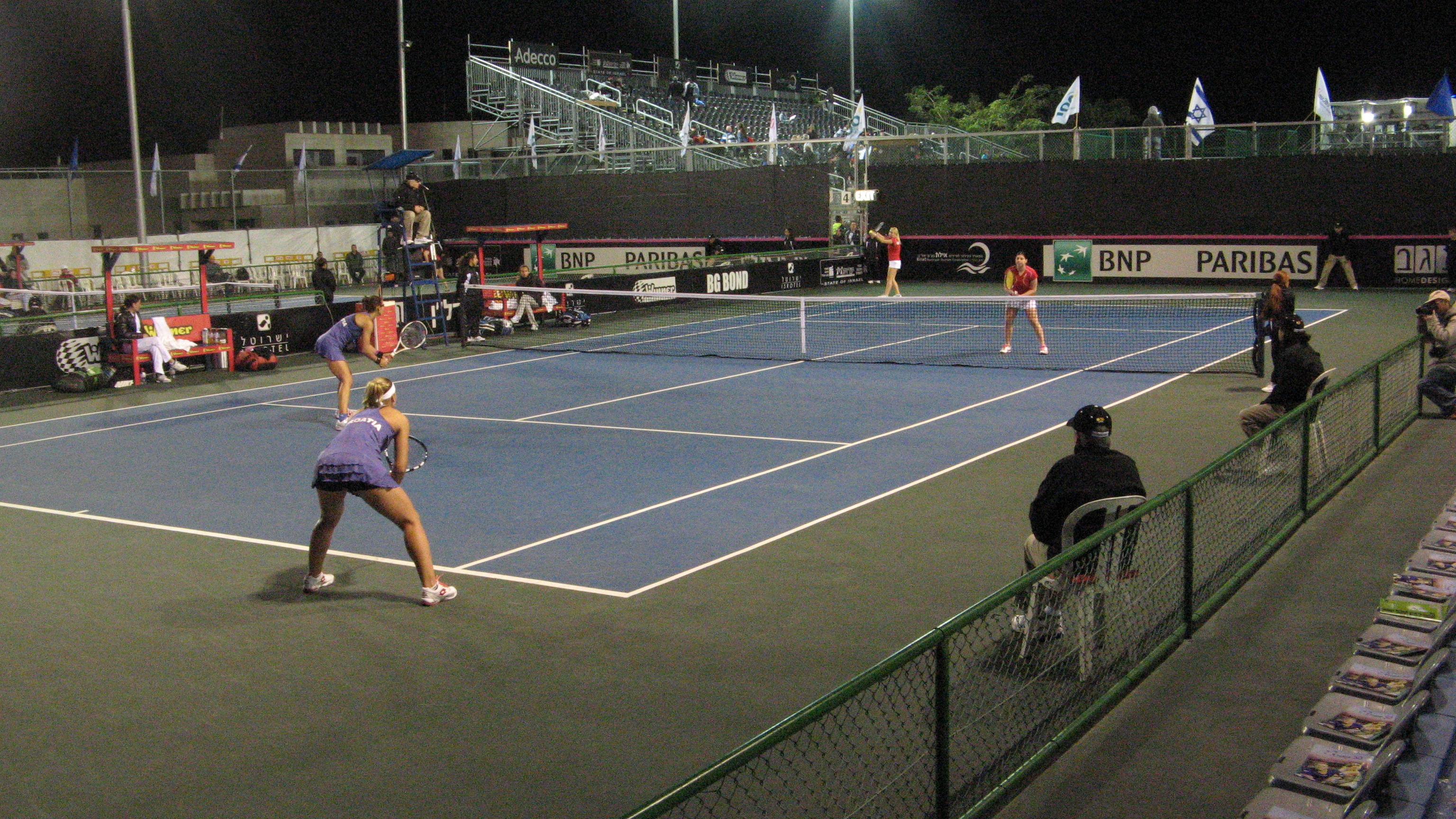 The tennis players Tereza Mrdeža and Darija Jurak of Croatia during their match against Sofia Shapatava and Ekaterine Gorgodze of Georgia in the 2nd day of Fed Cup Group I 2013 Europe/ Africa in Eilat, Israel.